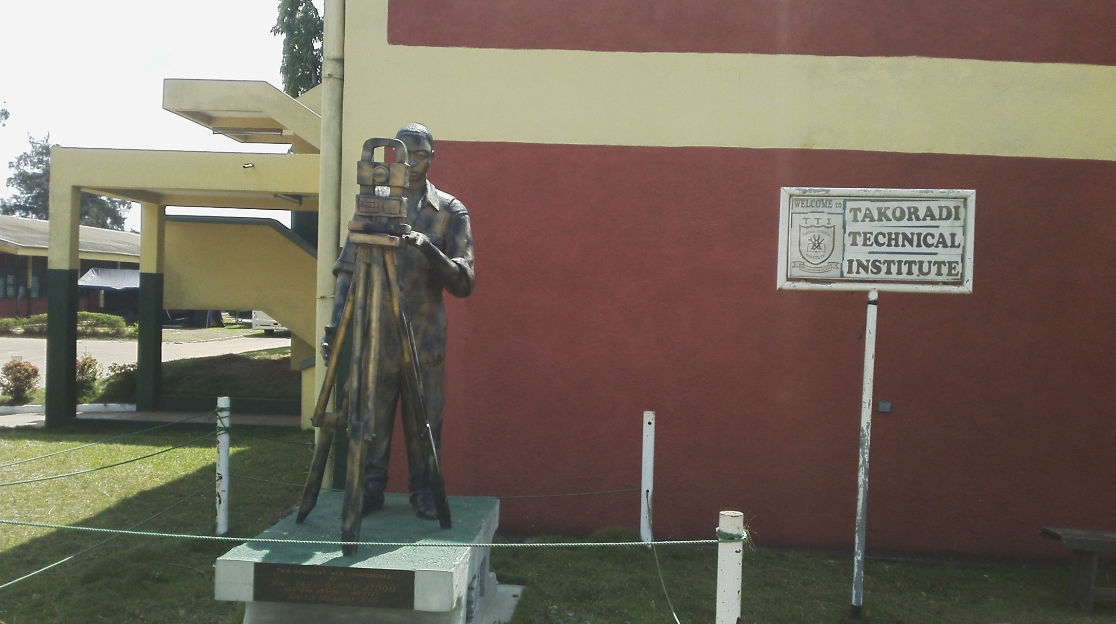 The statue signify how student are focused in academic work and other field related studies and practicals